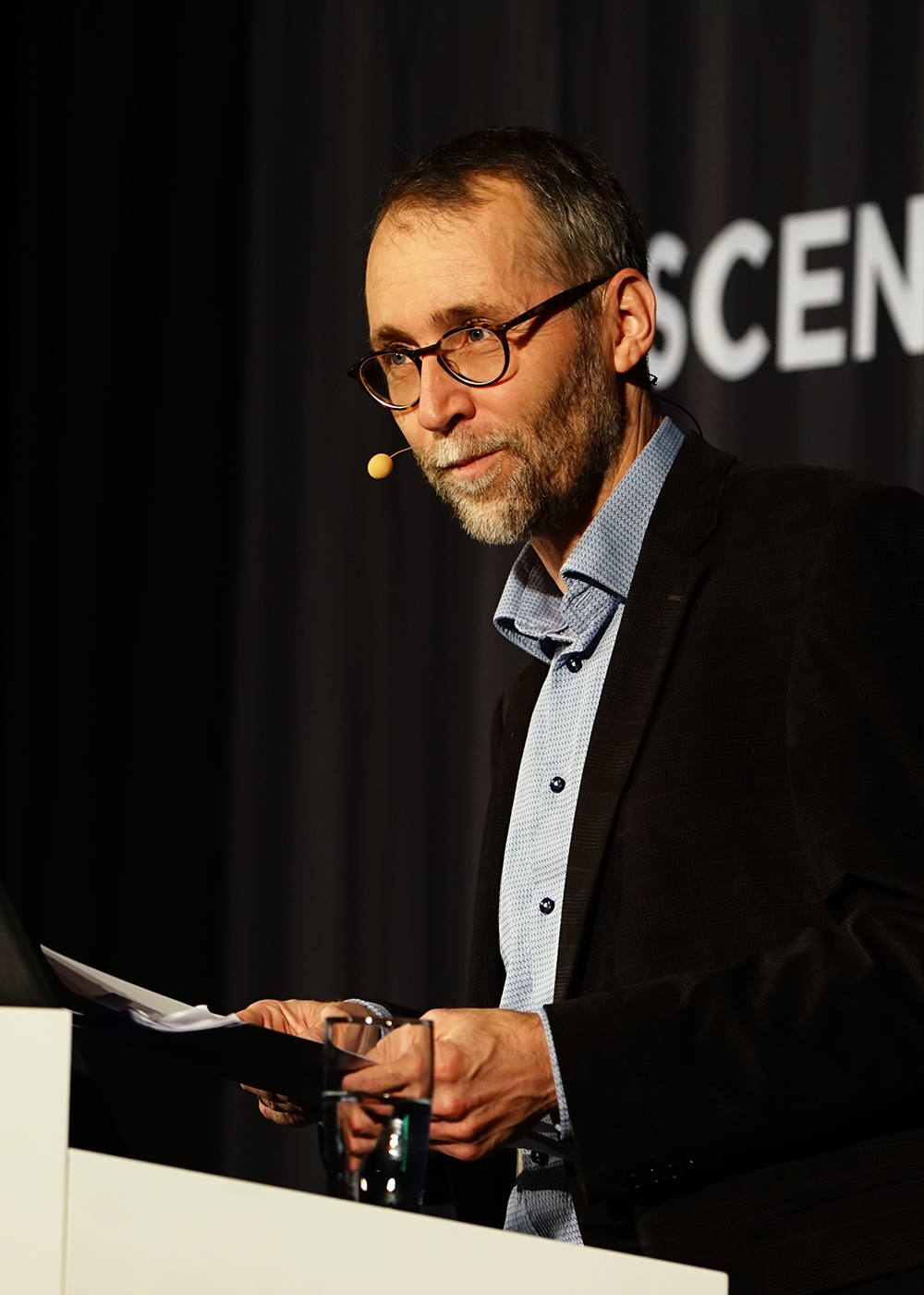 Tom Buk-Swienty - Danish historian, writer and journalist at the Copenhagen Book Fair "BogForum 2016", Copenhagen, Denmark